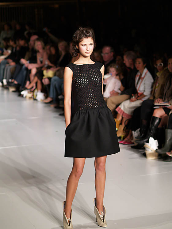 Katarina Ivanovska modeling in Cynthia Rowley spring 2007 show, New York Fashion Week.